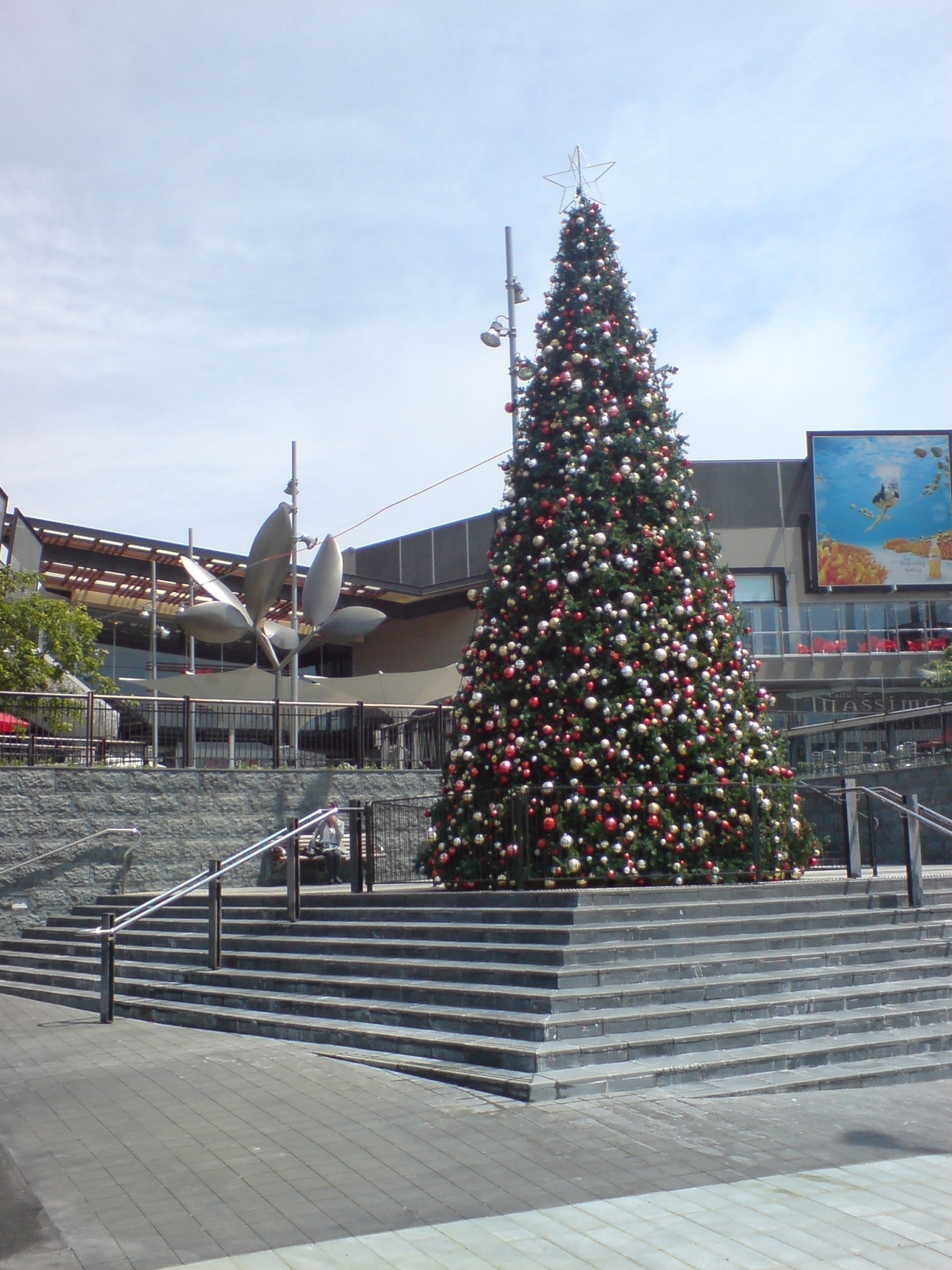 A Christmas tree seen at Westfield Albany in North Shore City, New Zealand.